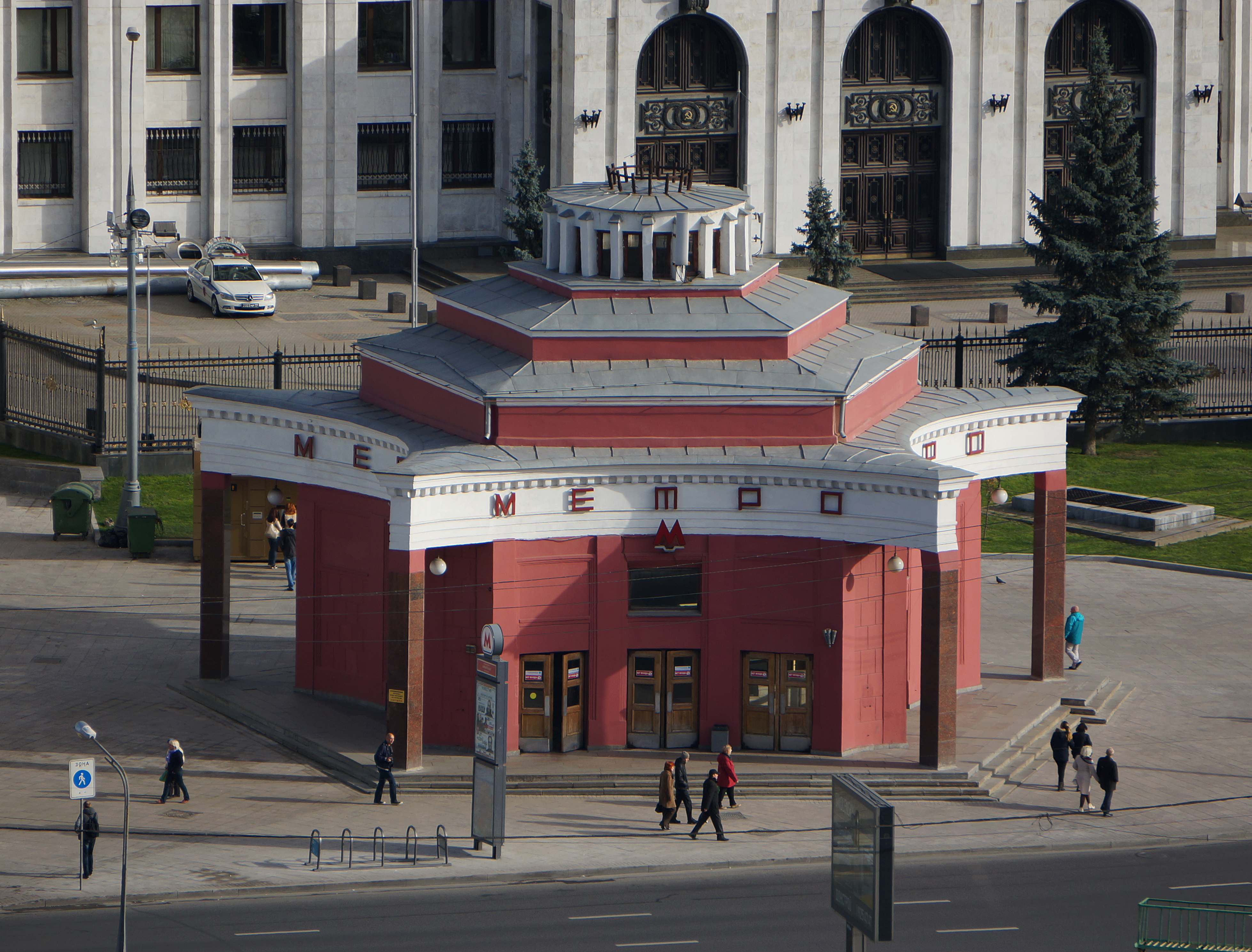 metro Arbatskaya (Filyovskaya Line), Arbatskaya Square, Moscow, pentagonal building